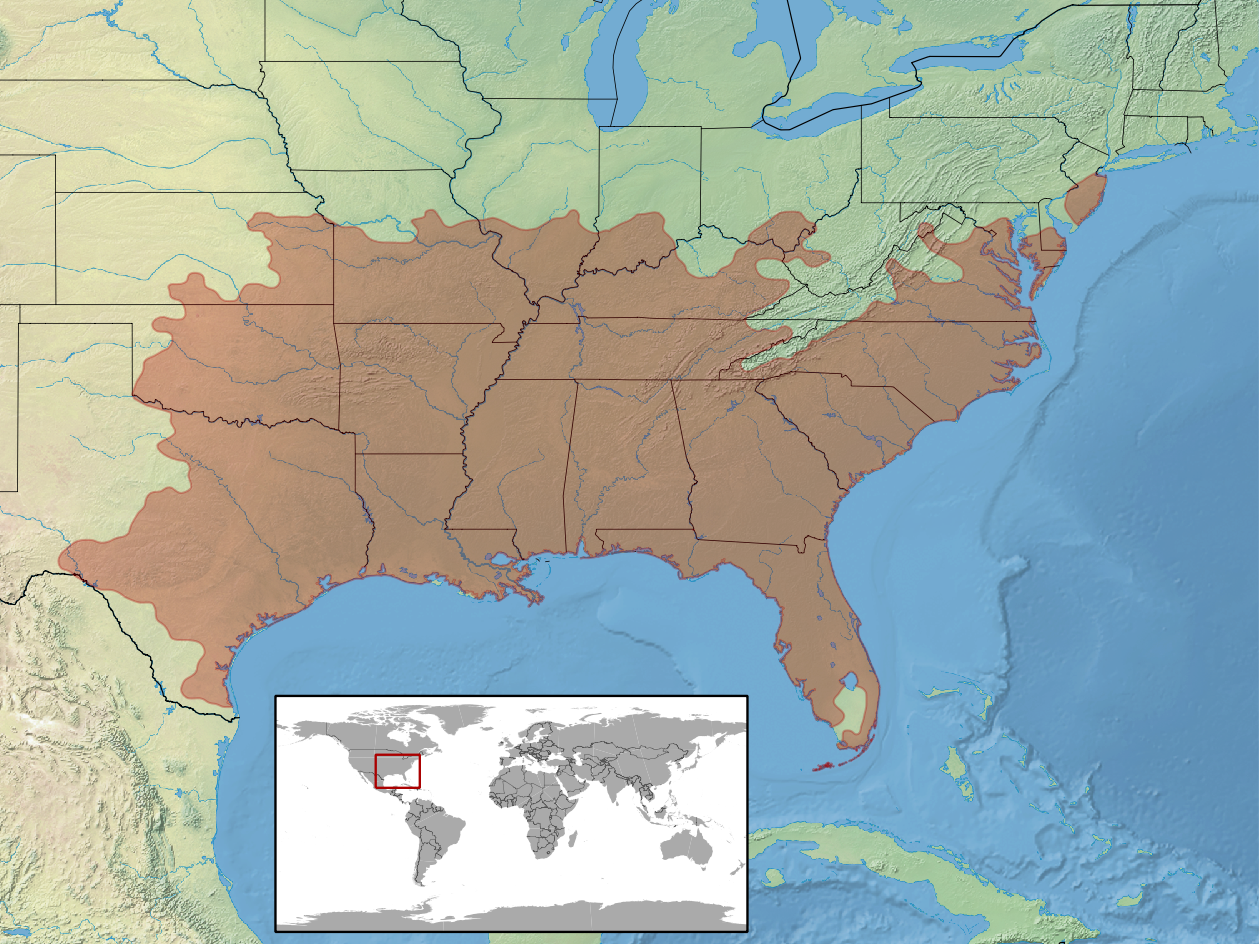 geographic distribution of Scincella lateralis